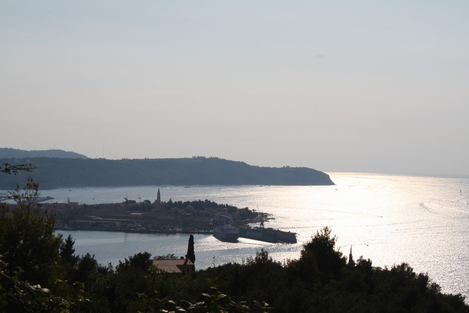 The Adriatic Sea near the port of Izola, Slovenia